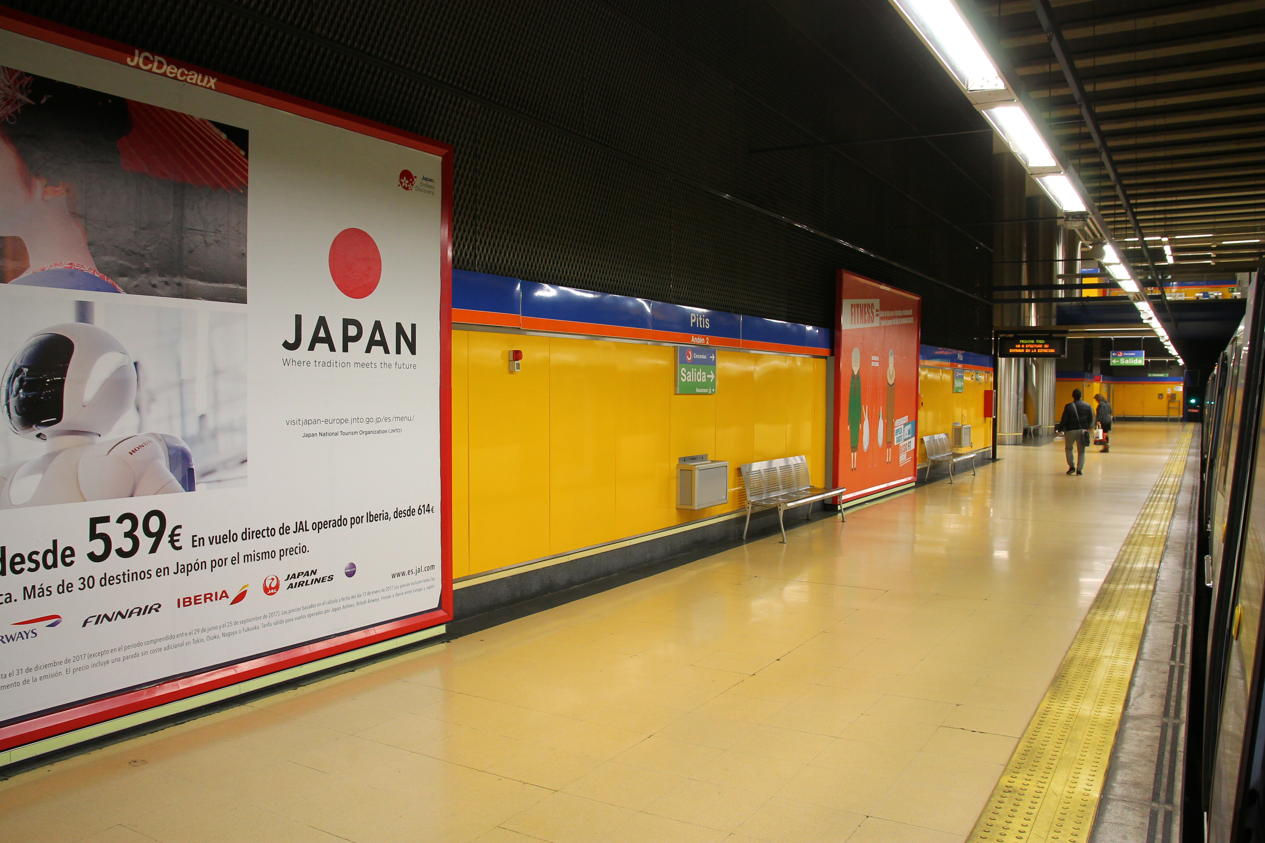 Estación de Pitis